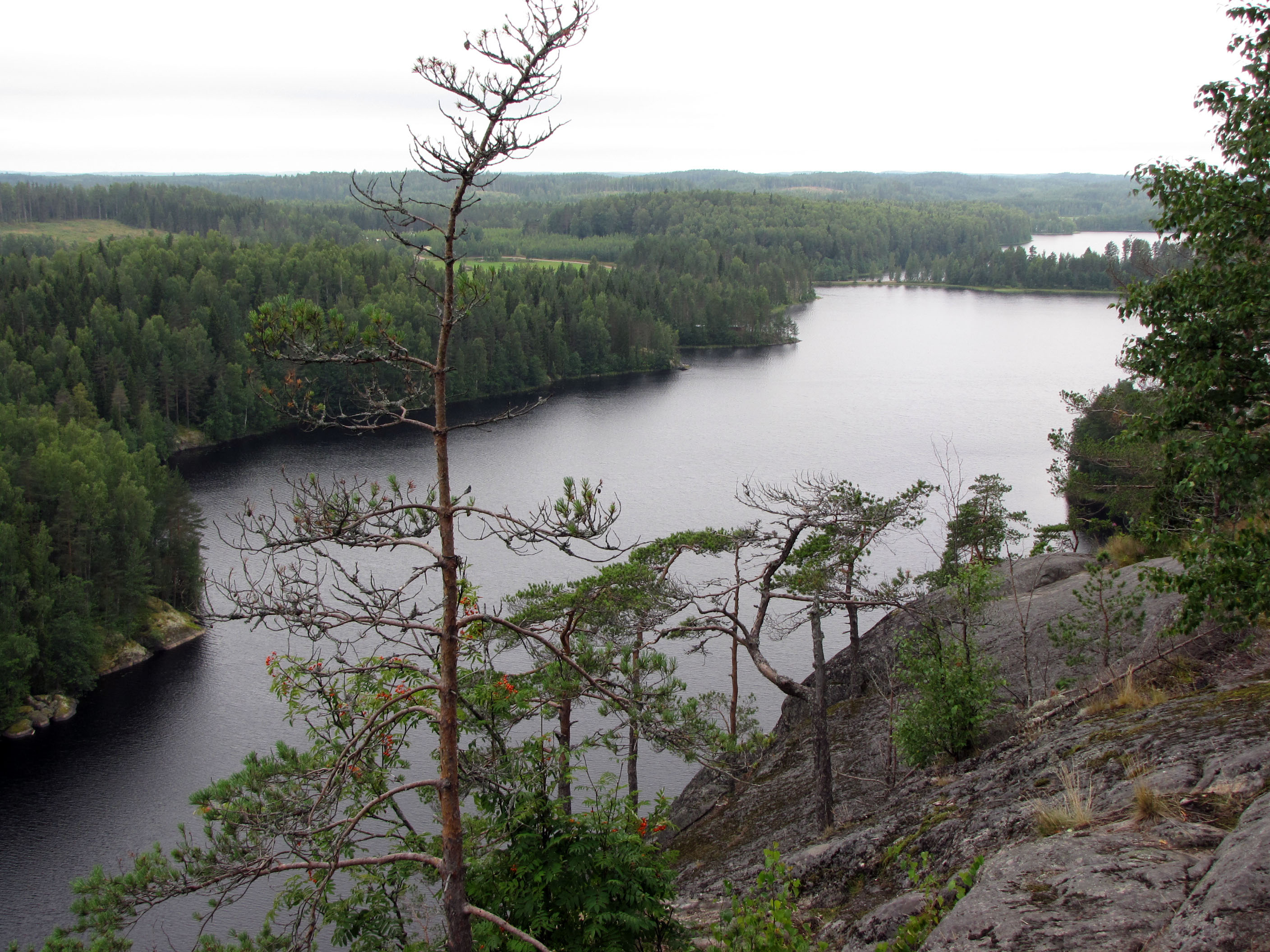 A view from Haukkavuori cliff in Rautjärvi in South-Eastern Finland.